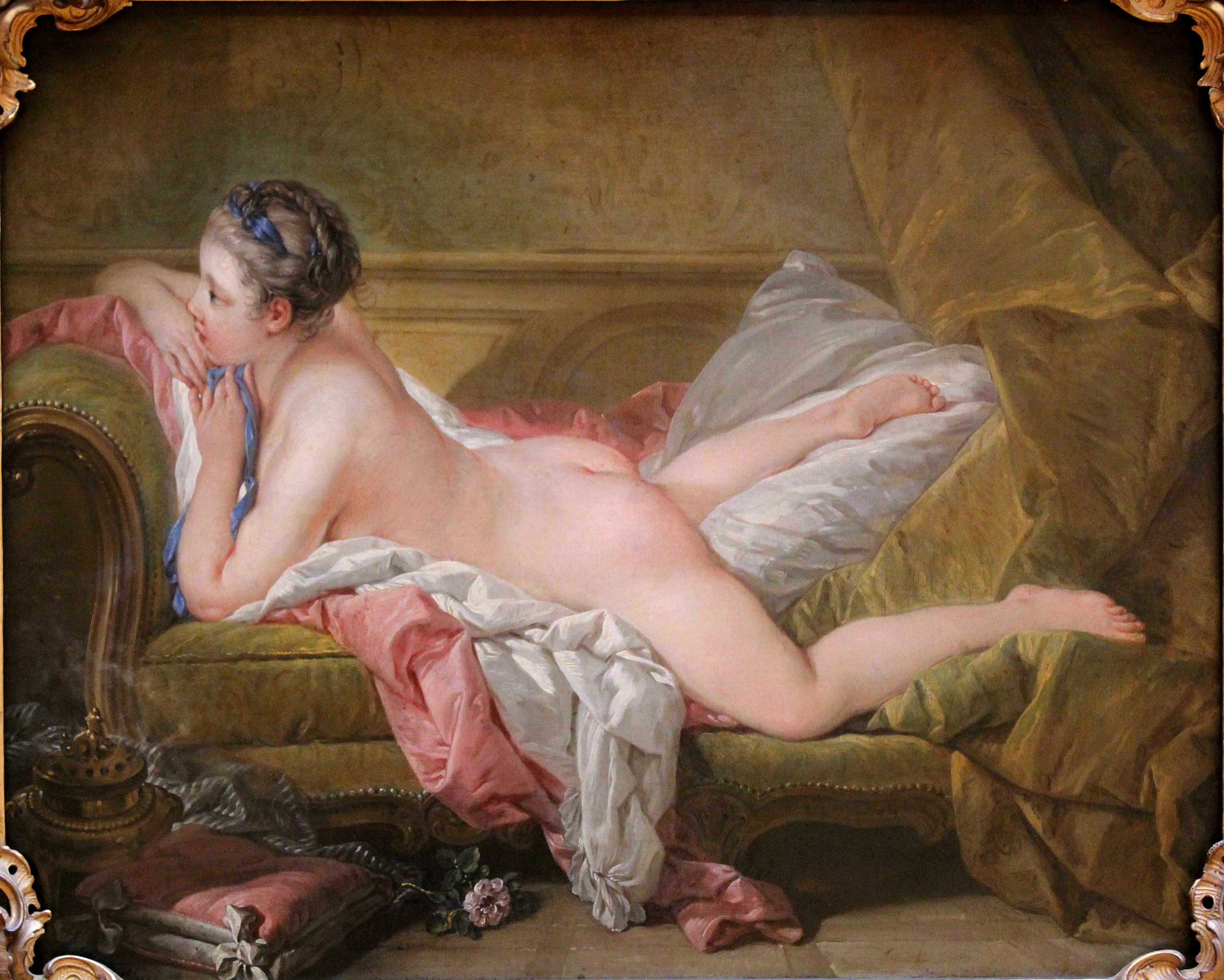 Probably a portrait of Marie-Louise O'Murphy (21 October 1737 – 11 December 1814), mistress to Louis XV of France.